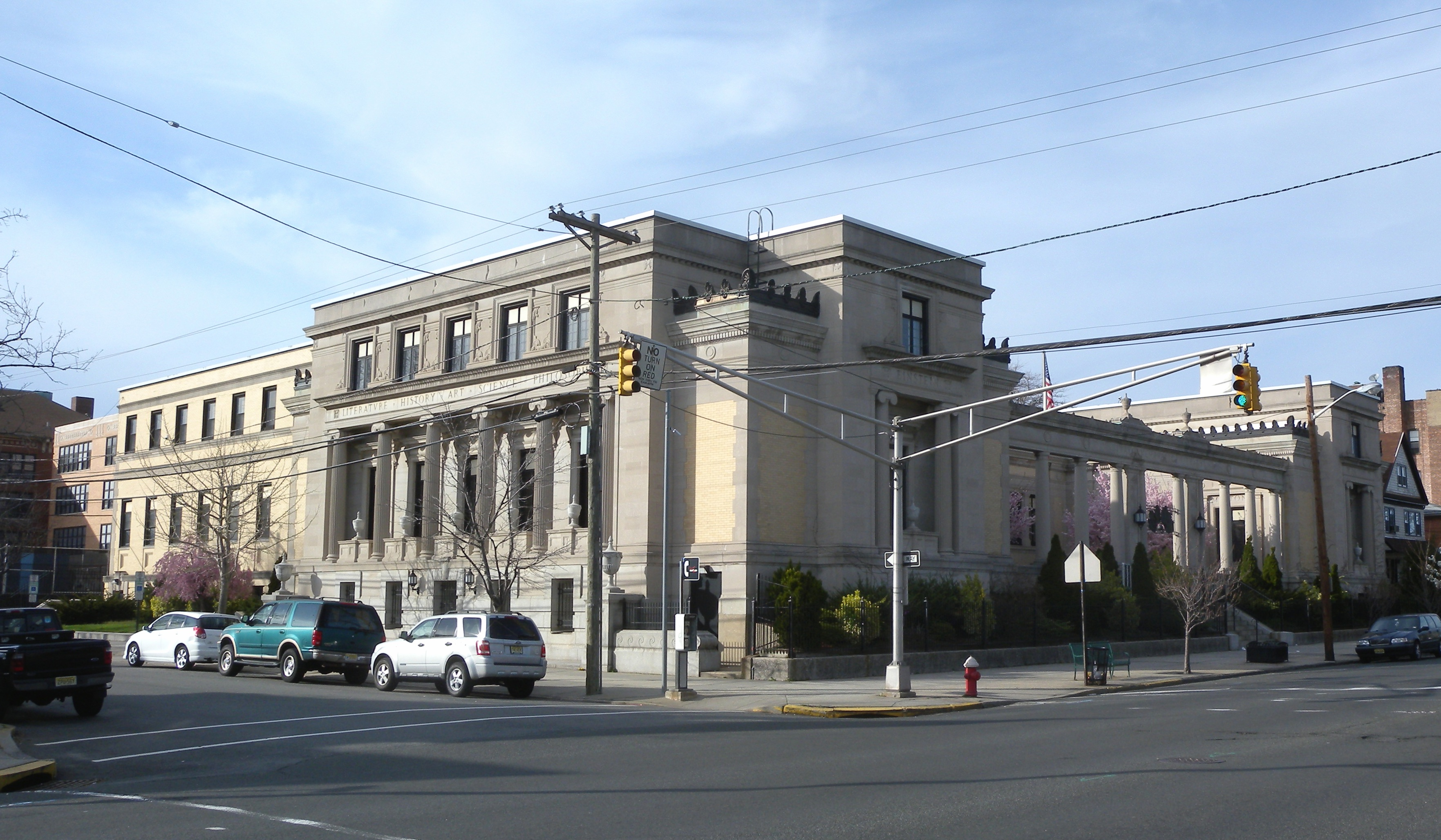 Looking north across Avenue C at Bayonne Free Public Library on a sunny afternoon.